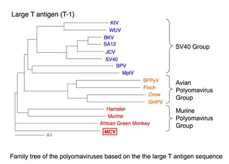 Boot-strap phylogenetic tree of the polyomaviruses